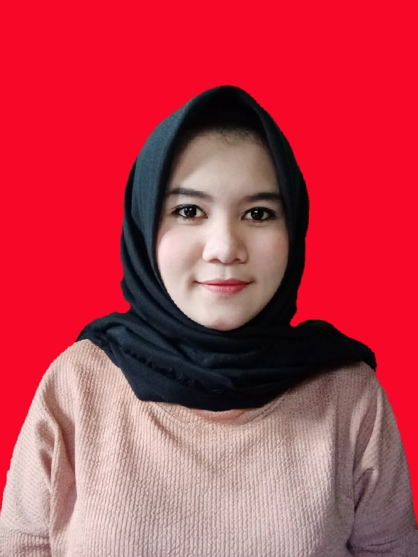 kasi pemerintahan